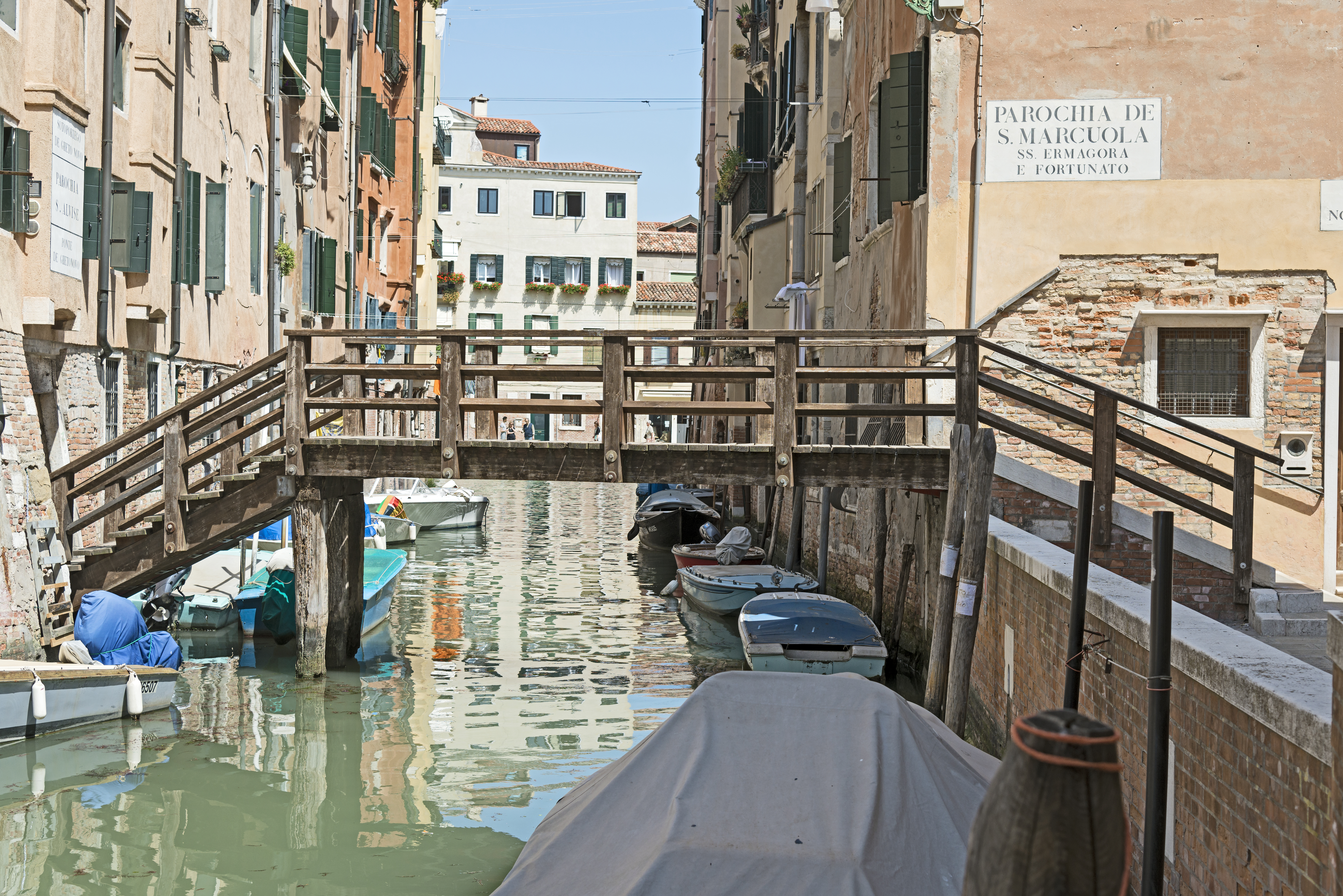 Ponte de Gheto Novissimo on rio di ghetto nuovo - Venice